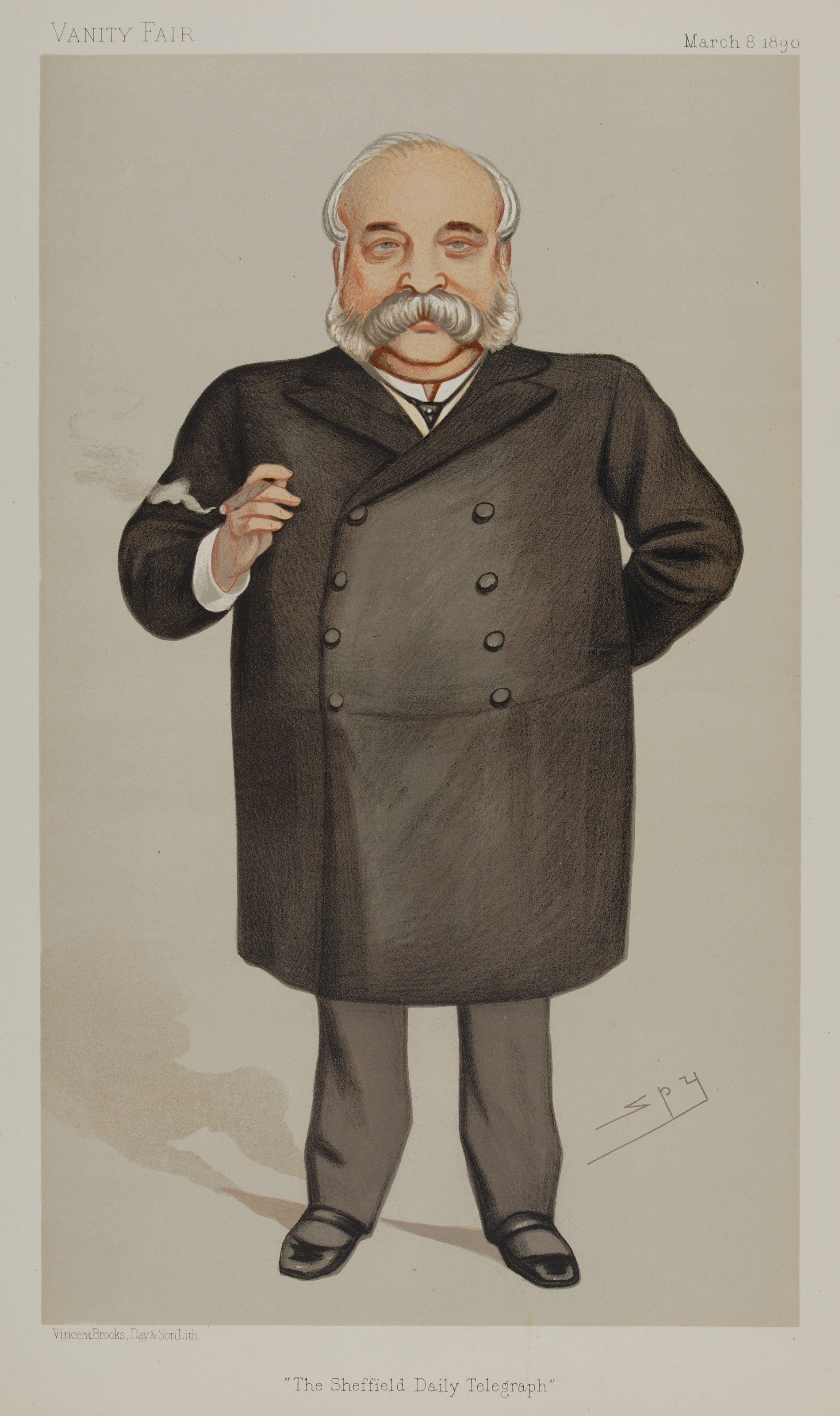 Men of the Day No. 463: Caricature of Sir William Christopher Leng. Caption read "The Sheffield Daily Telegraph".